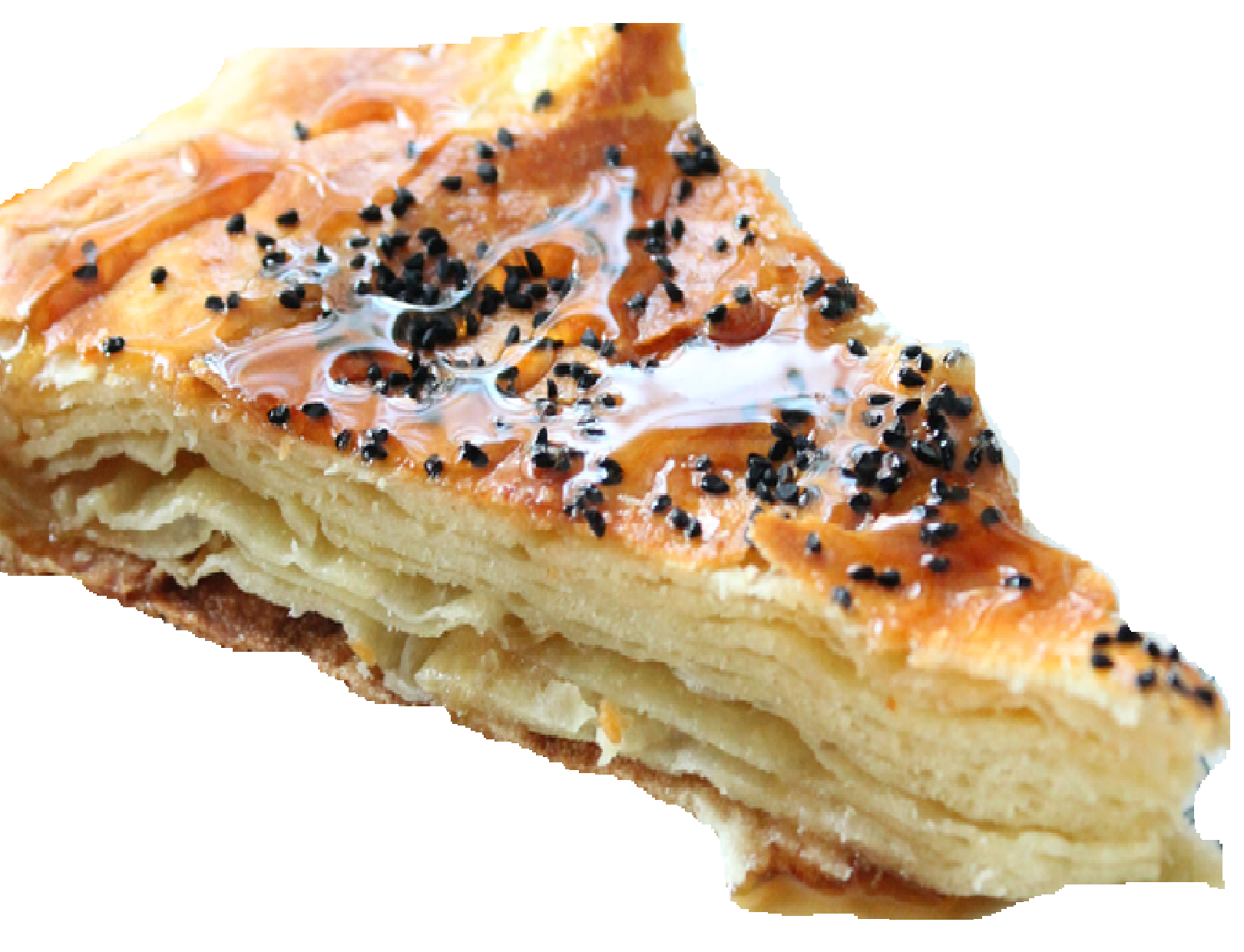 yemeni bread sweets